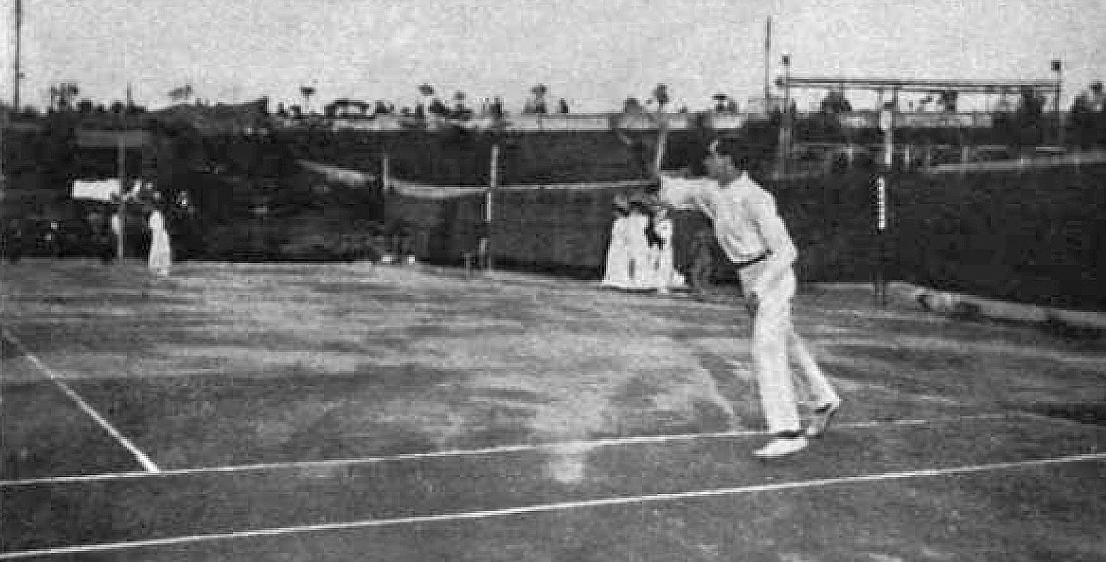 French tennis player Max Decugis playing at the Margitsziget court in Budapest, Hungary in 1908. Published in the weekly periodical newspaper called Vasarnapi Ujság by the printing press inc. Franklin Irodalmi és Nyomdai Rt. in 1908.